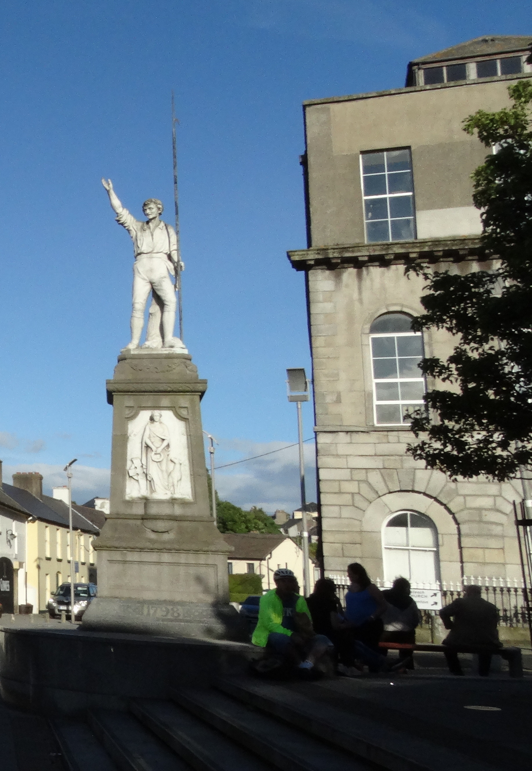 Wicklow - Monument Square showing Billy Byrne Monument and part of Wicklow Courthouse